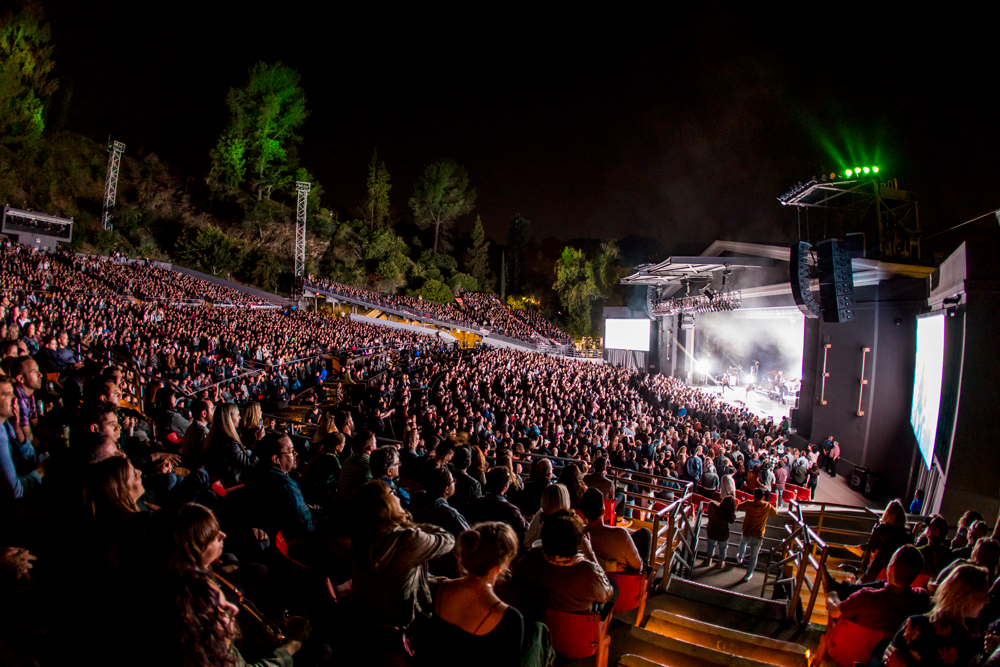 Greek Theatre, Los Angeles - 2020